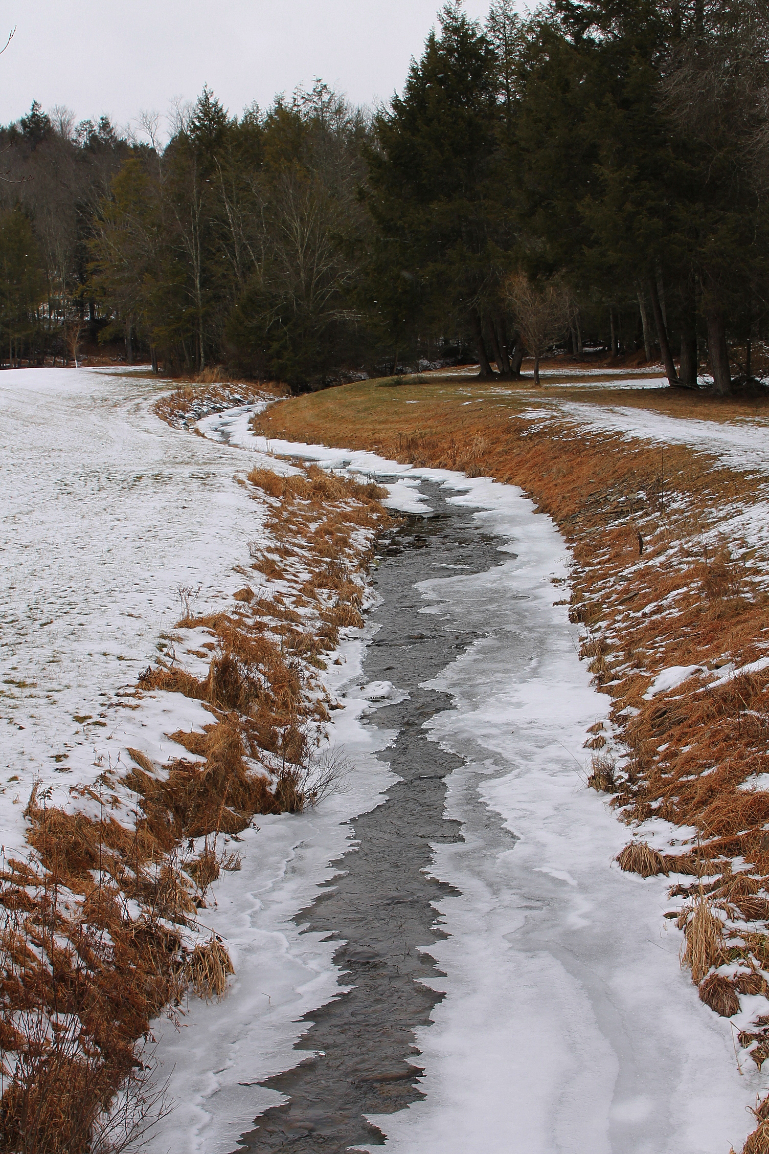 Devil Hole Run, a tributary of Little Fishing Creek, as seen from Devil Hole Run Road